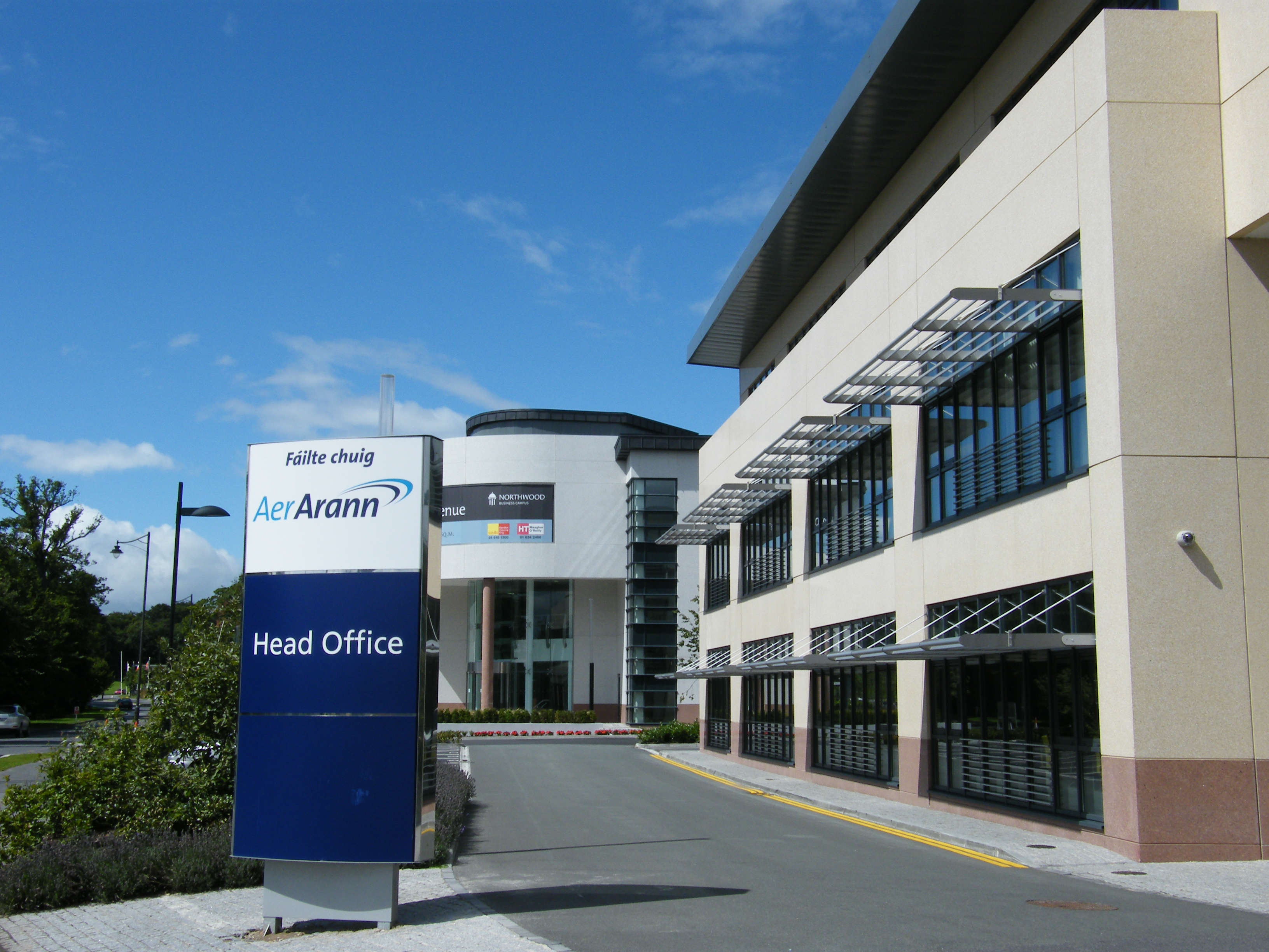 Aer Arann head office in Dublin - 1 Northwood Avenue, Santry, Dublin 9